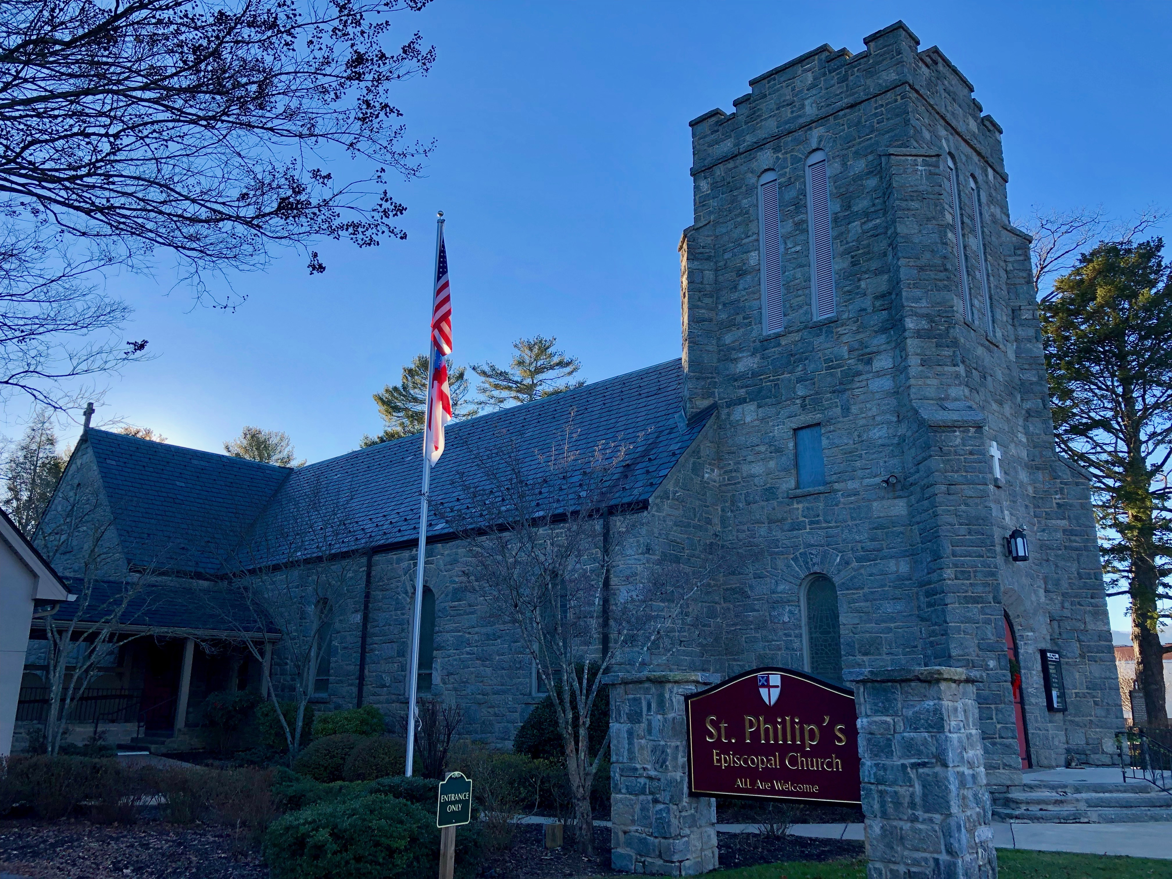 St. Phillip's Episcopal Church, Brevard, NC